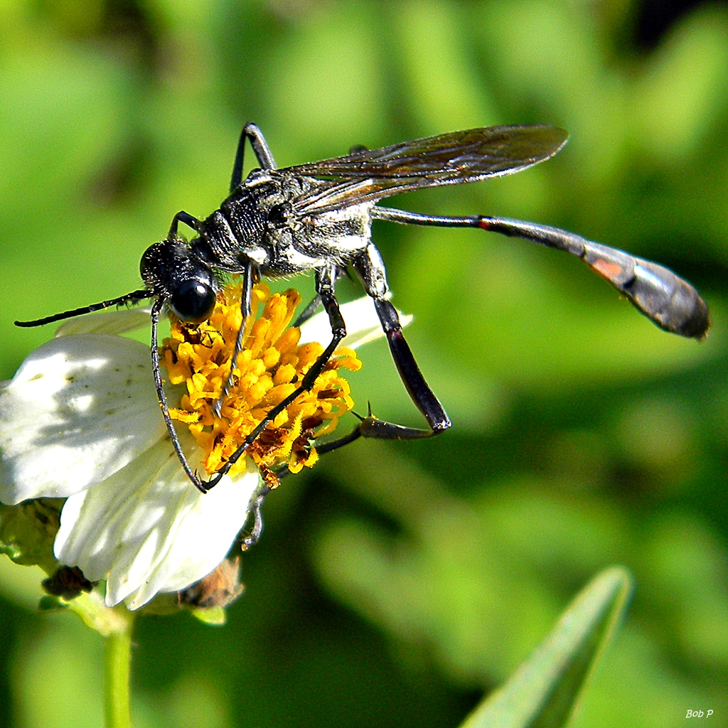 One more weedy weekend wasp. This large active wasp loves to nectar upon flowers and builds her nest by burrowing into the sand. She provisions the nest with caterpillars. They are very active hunters and rarely hold still for long. This one lives at Frenchman's Forest Natural Area in Palm Beach County.